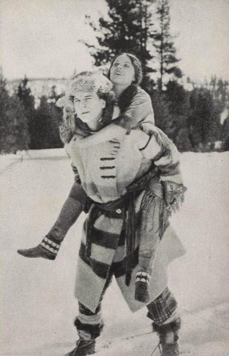 Still from the American drama film Behold My Wife! (1920) with Mabel Julienne Scott and Milton Sills, on page 57 of the August 1920 Shadowland.